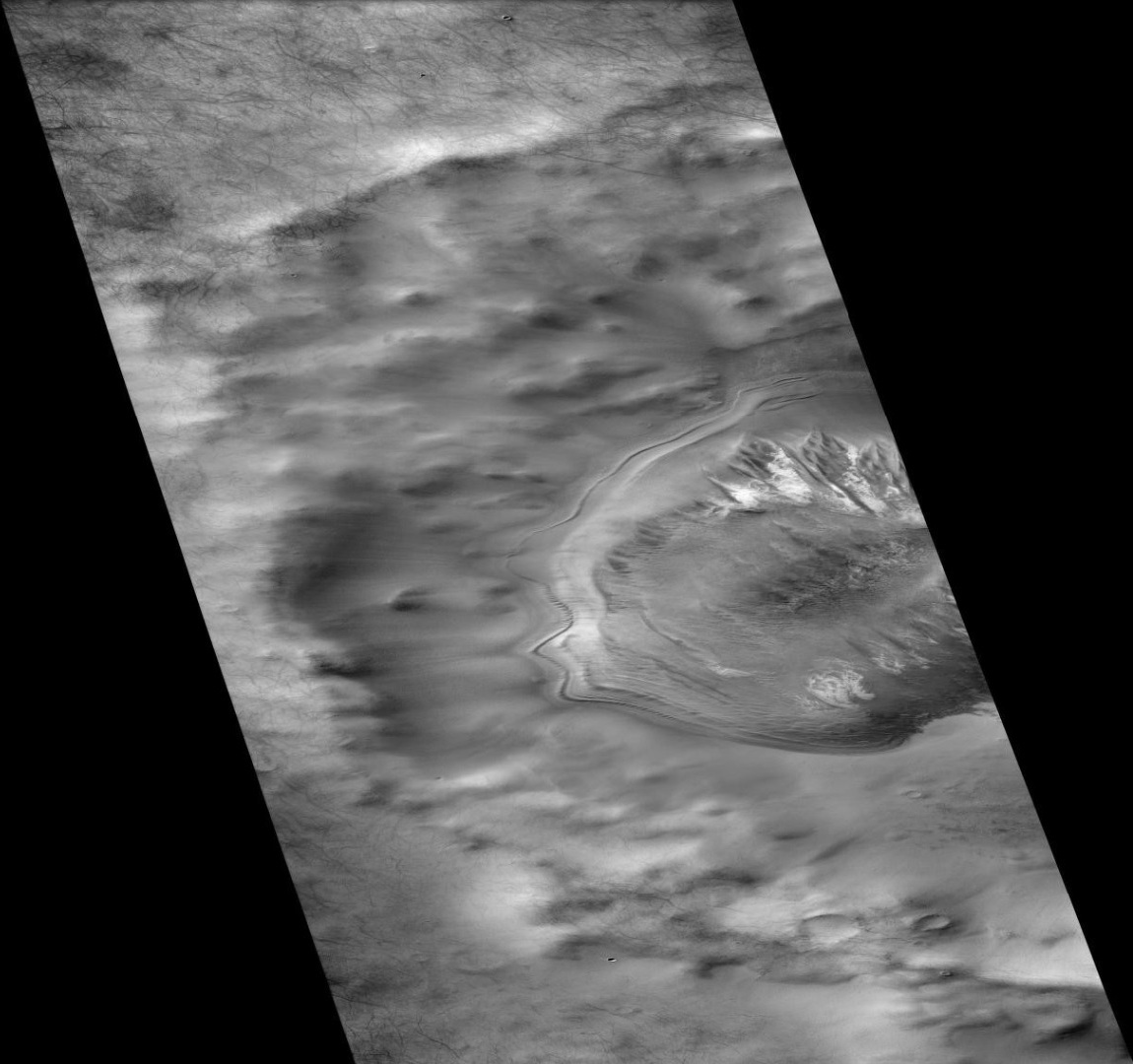 Suess crater, as seen by ctx